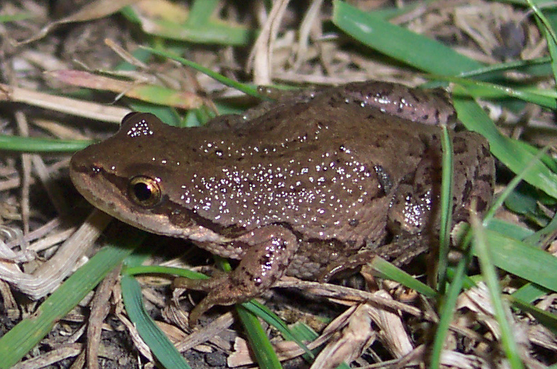 A Boreal Chorus Frog, (Pseudacris maculata) from Edmonton, Canada. Category:Frog images